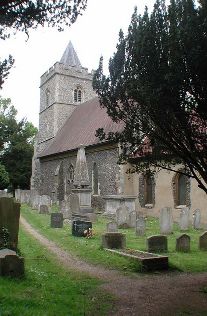 St John the Baptist, Great Amwell, Herts